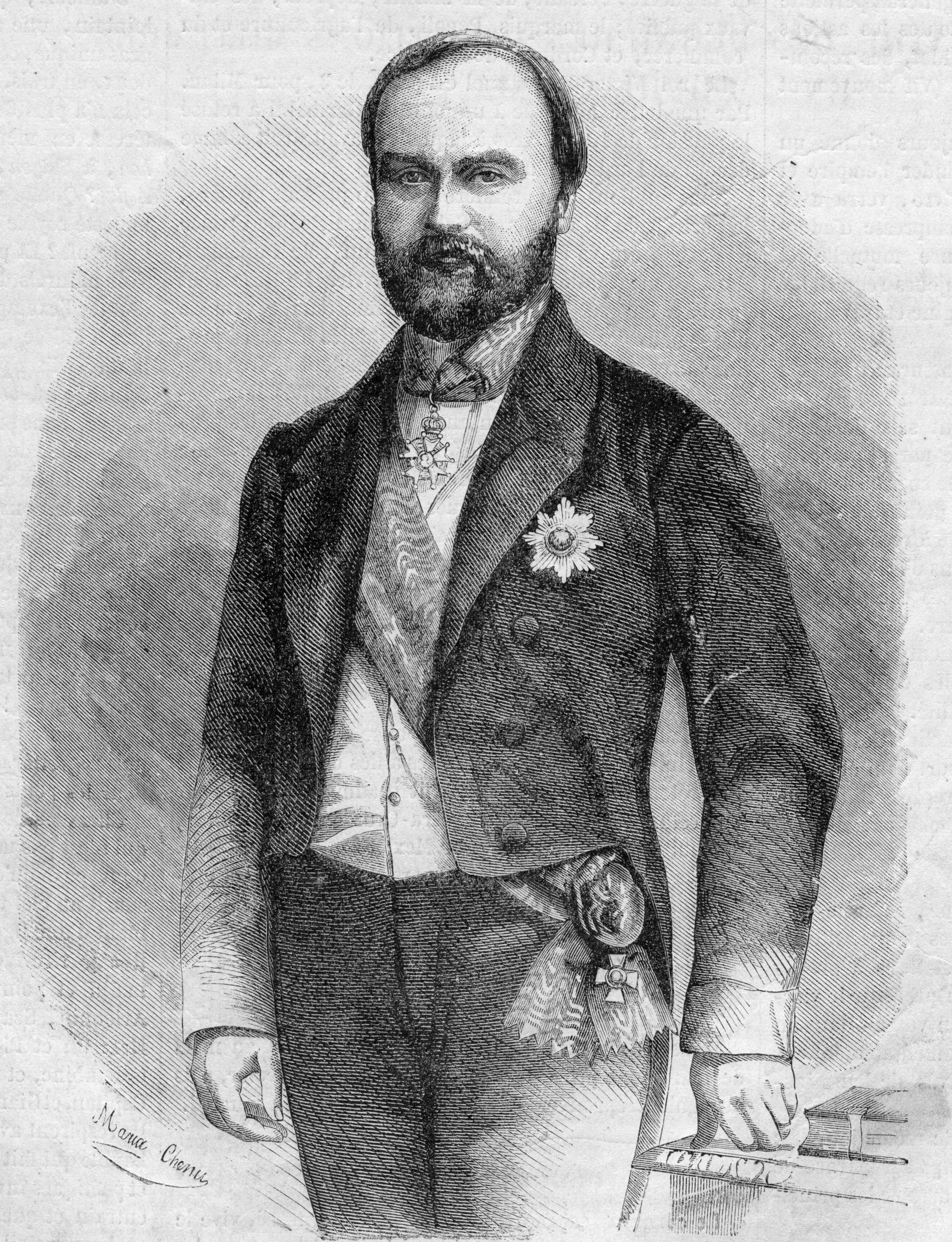 L'Illustration 1862 gravure M. Dubois de Saligny, ministre de France au Mexique